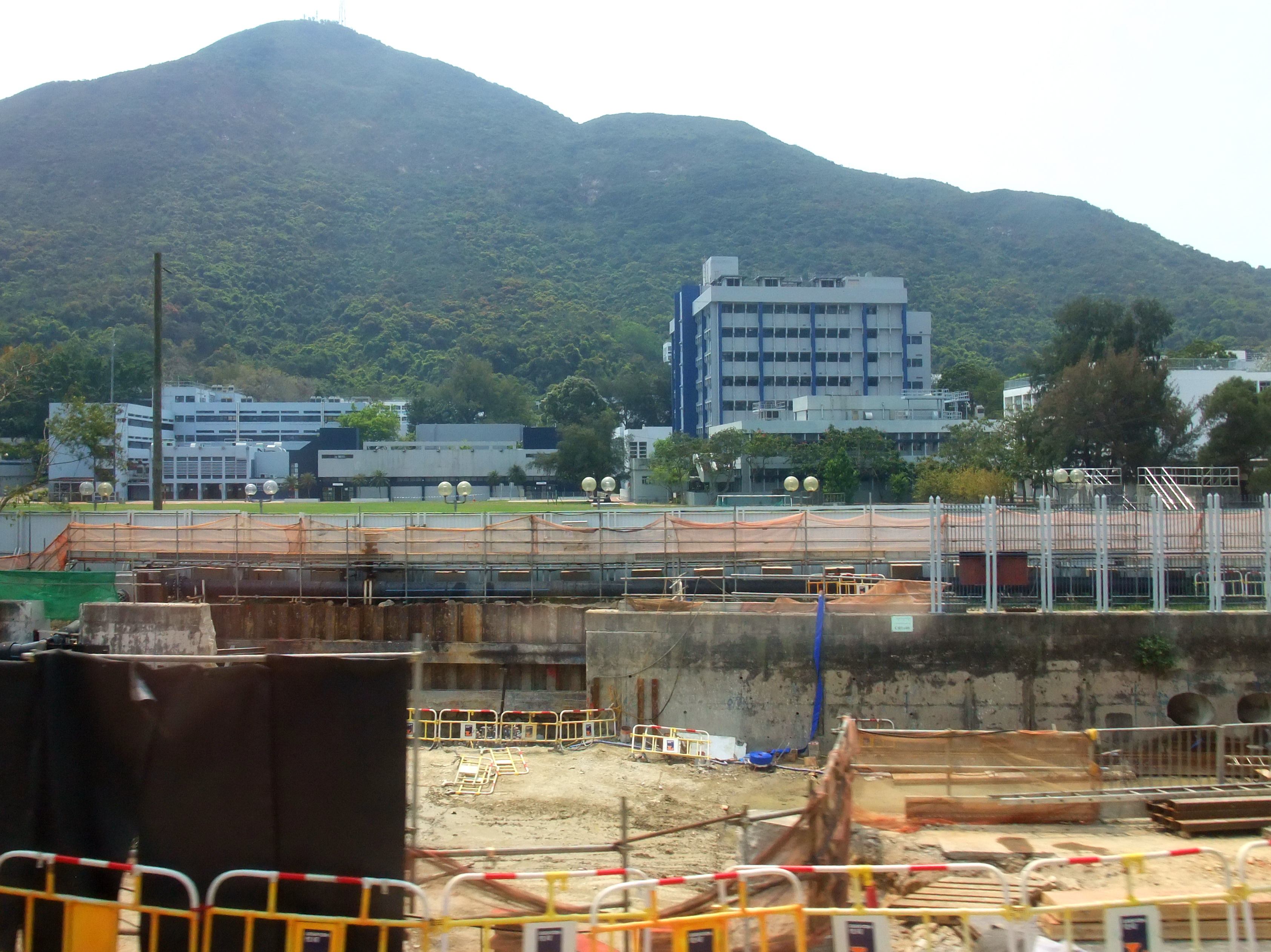 Hong Kong Police College, Wong Chuk Hang, Hong Kong. MTR South Island Line under construction in the front.